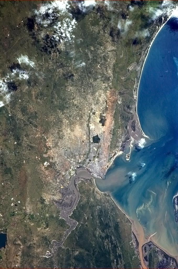 Maputo pictured from the International Space Station